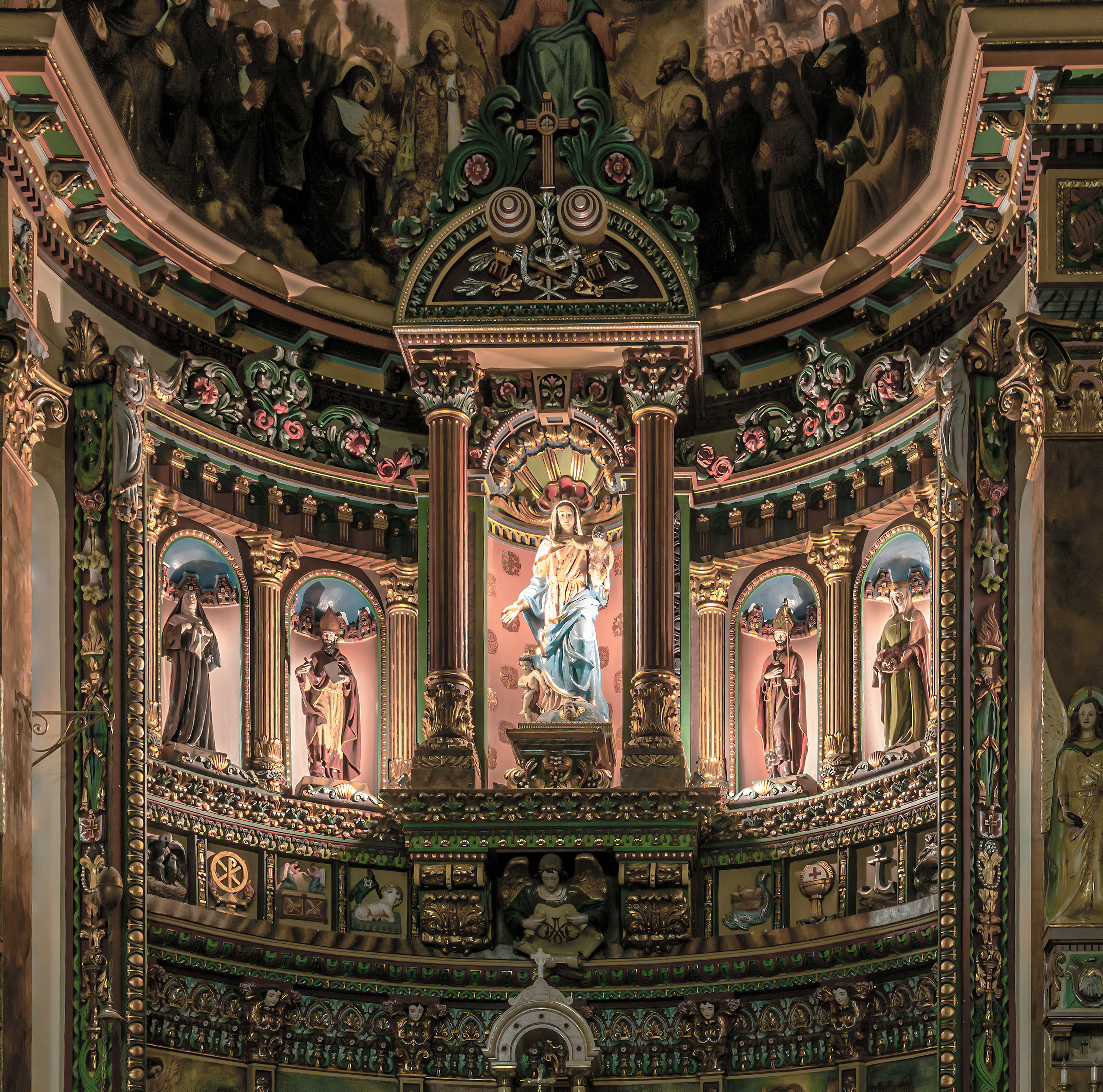 Nossa Senhora de Saude Church, São Paulo, Brazil .HDR Version.